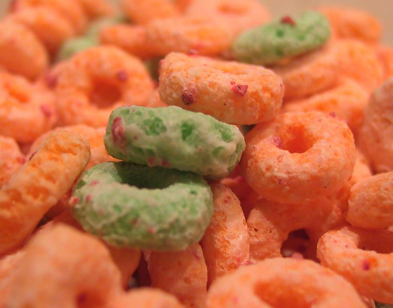 Apple Jacks.AppleJacks